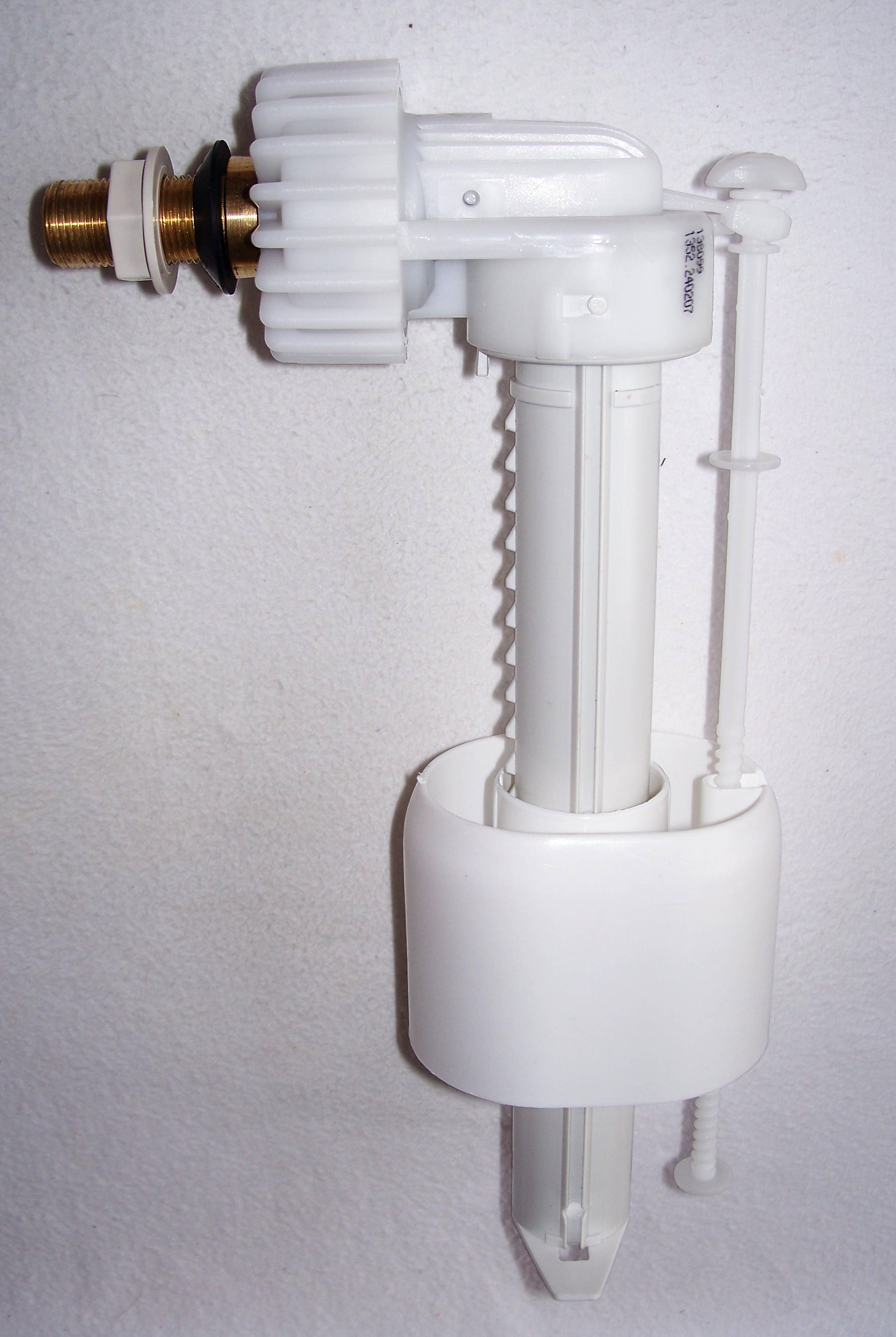 float valve or ballcock used in the water tank of a flush toilet